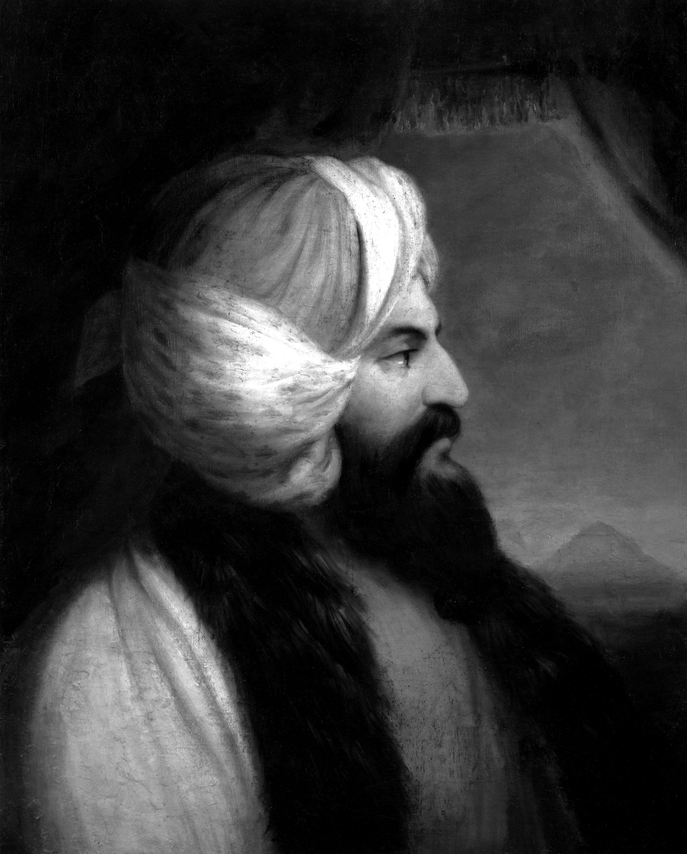 Giovanni Battista Belzoni, by William Brockedon (died 1854), given to the National Portrait Gallery, London in 1890. All images in this batch have been confirmed as author died before 1939 according to the official death date listed by the NPG.